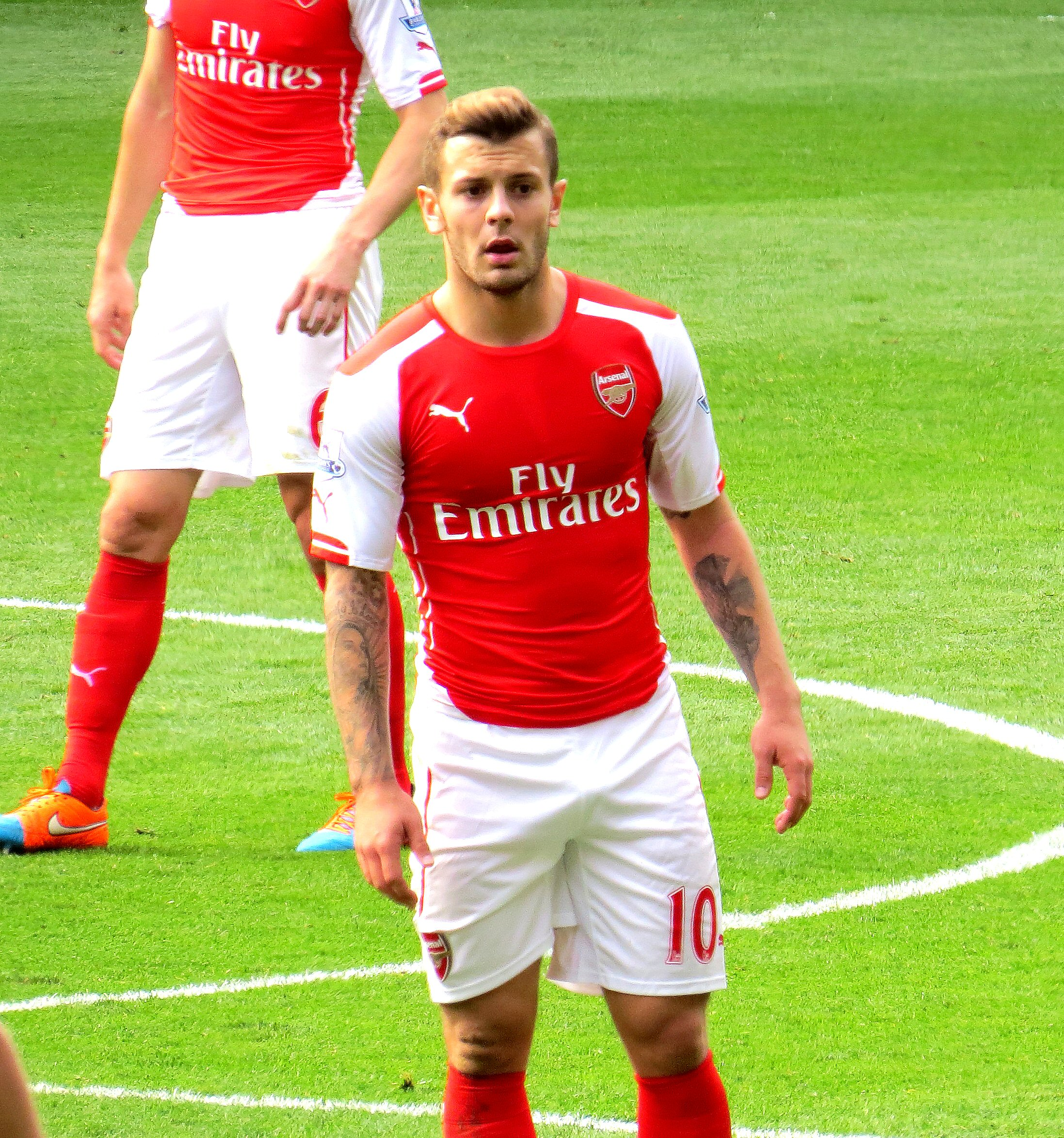 Jack Wilshere playing away to Chelsea Oct 2014